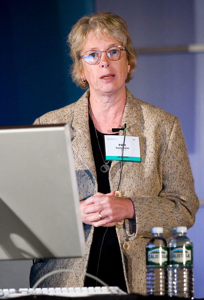 Pamela Samuelson at the 2005 Where 2.0 Conference.